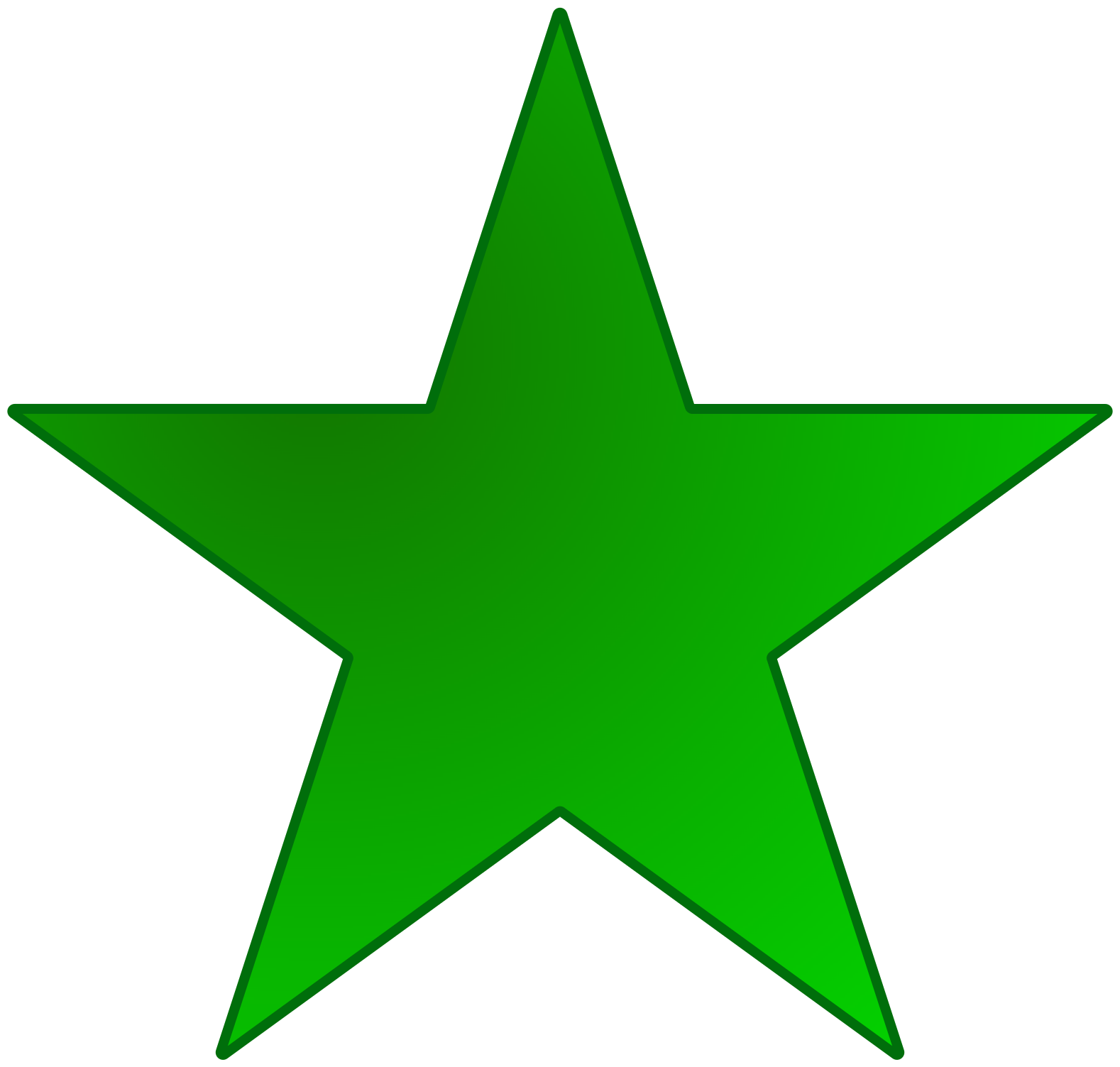 A five-pointed green star is often used as a symbol of Esperanto; such a star is included on the language's flag.